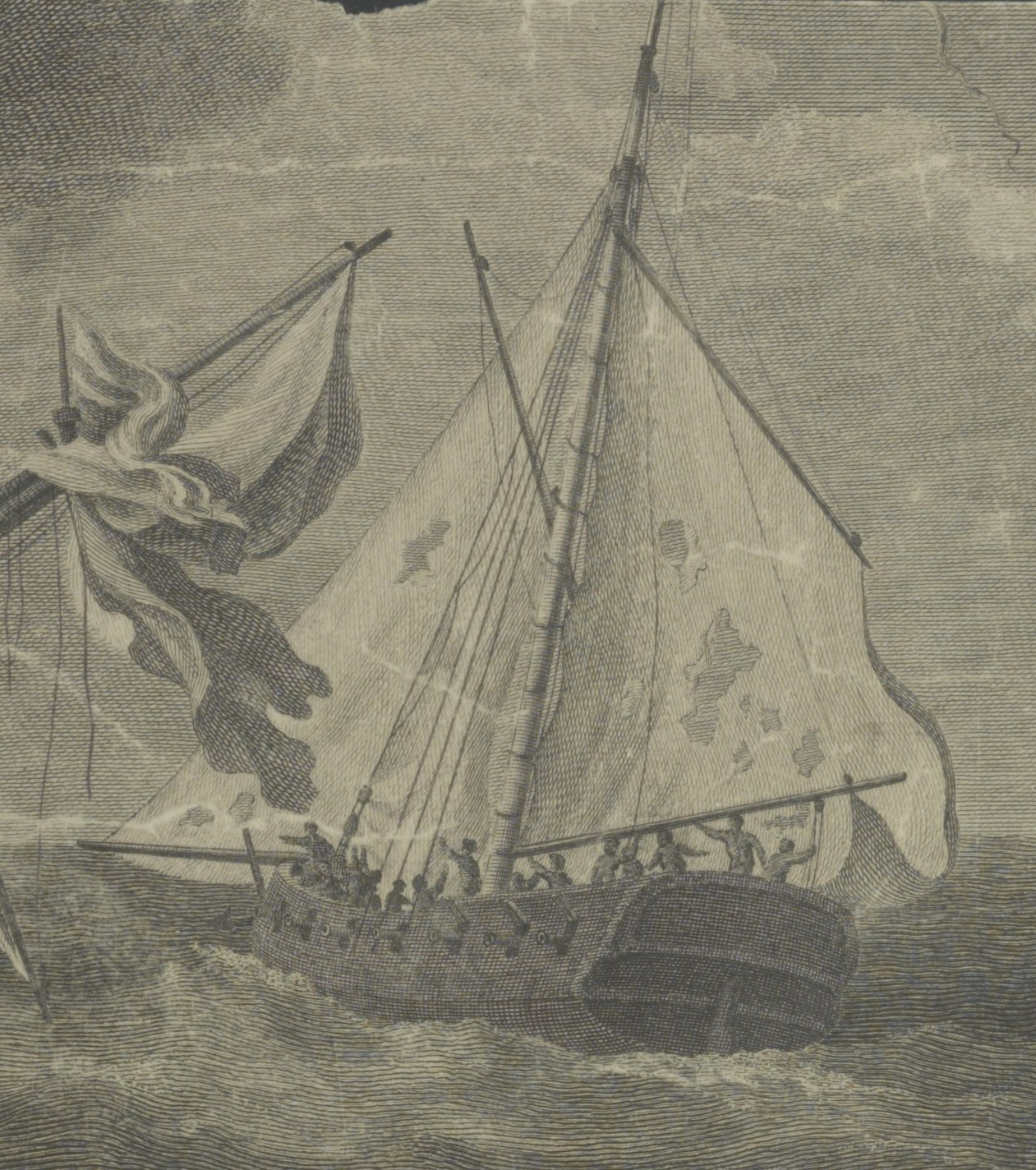 Title: The distressed situation of the Quebec & the Surveillante. A French ship of war Physical description: 1 print. Notes: This record contains unverified data from PGA shelflist card.; Associated name on shelflist card: Boydell, John.